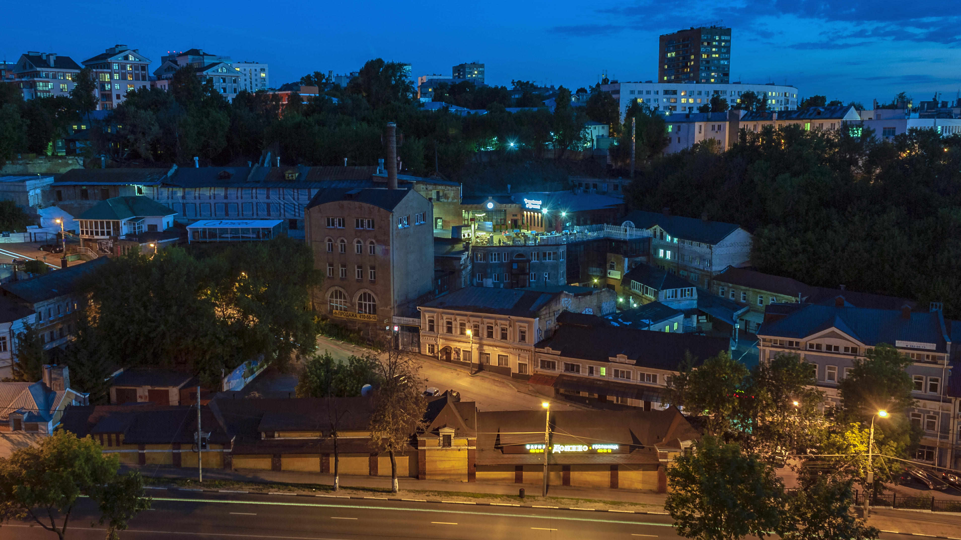 Pochaina in Nizhny Novgorod